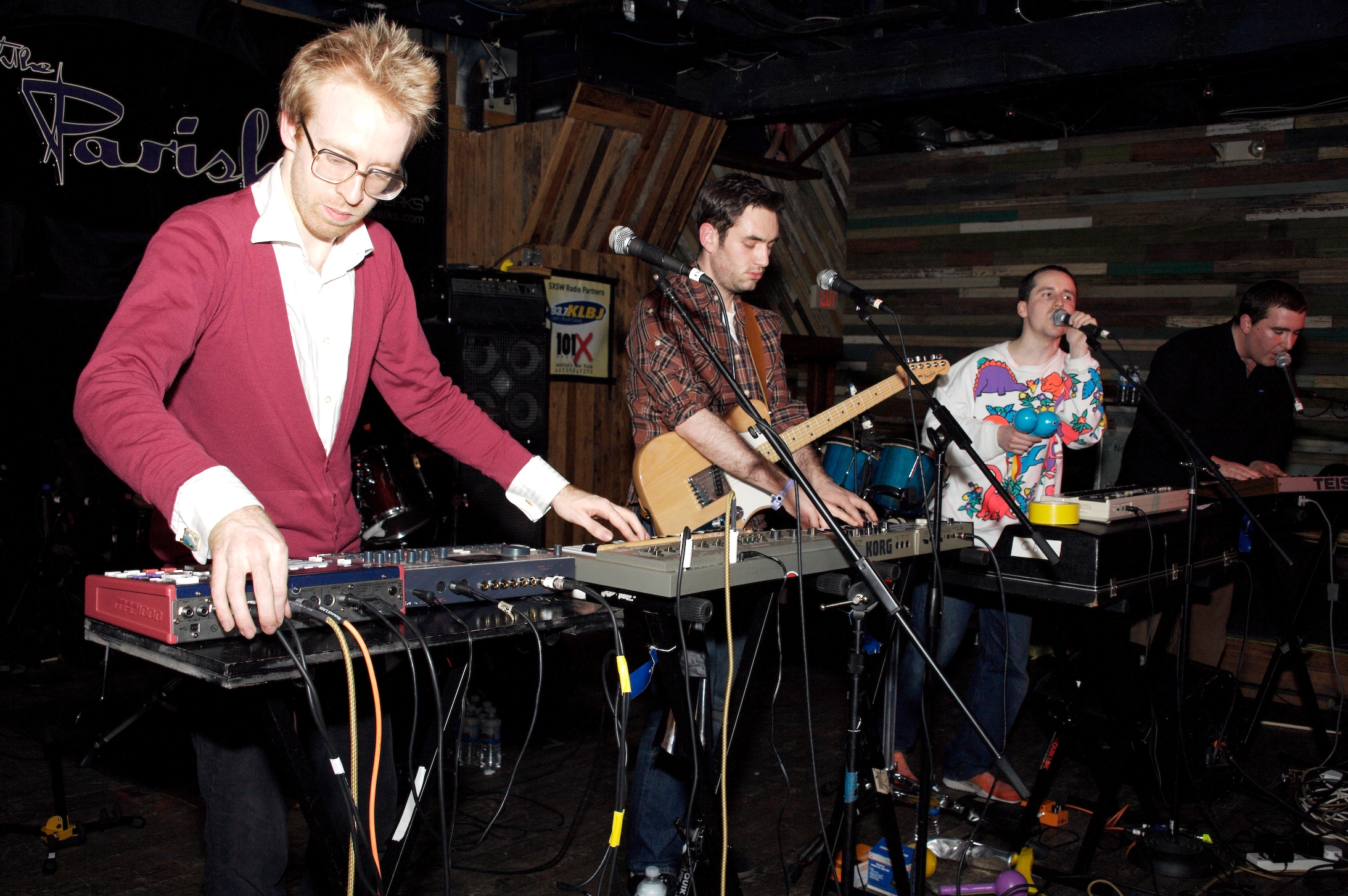 hot chip at the parish